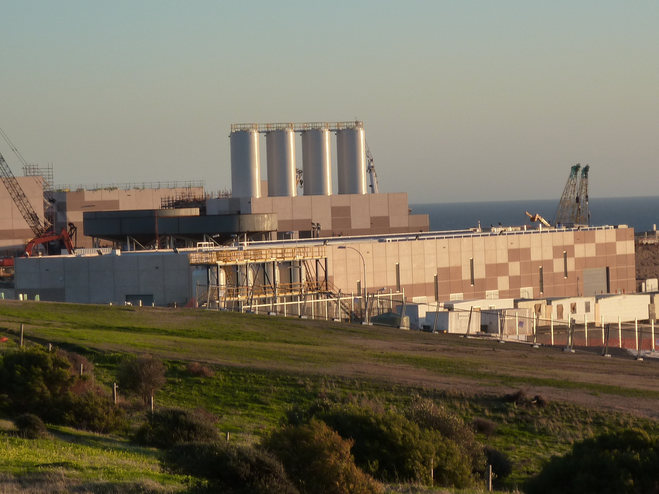 Port Stanvac Desalination Plant (under construction). View from the north (Hallett Cove/Lonsdale border area).